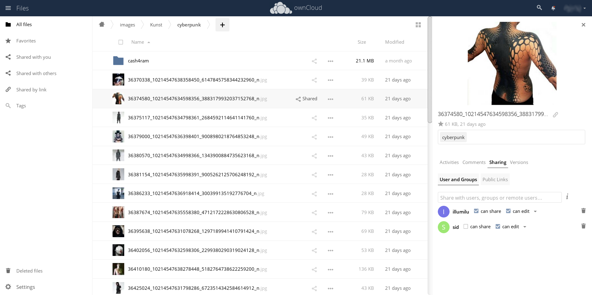 Sharing a file in ownCloud 10.0.7